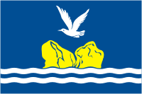 Lakhta-Olgino (municipality in St. Petersburg), flag